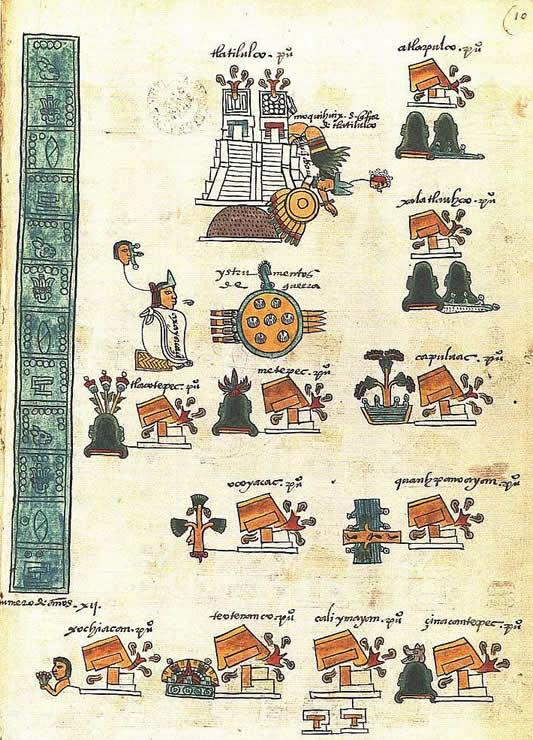 A detail from a page of the Codex Mendoza, an Aztec codex created soon after the Conquest. This page lists some of the triumphs of King Axayacatl, including several shown as trilobed altepetls. Clockwise from the top: Tlatelolco, Atlapulco, Xalatlauhco, Capuluac, Metepec, Tlacotepec. Axayacatl is seated on the left, with his name glyph “Watermask” floating above him.